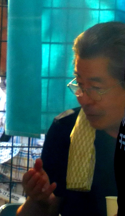 Tatekawa Shinosuke (立川 志の輔 Tatekawa Shinosuke, born 15 February 1954, from Shinminato, Toyama (now part of Imizu)) is a rakugo performer. Here he is depicted at Meguro Sun Festival (目黒のSUNまつり).